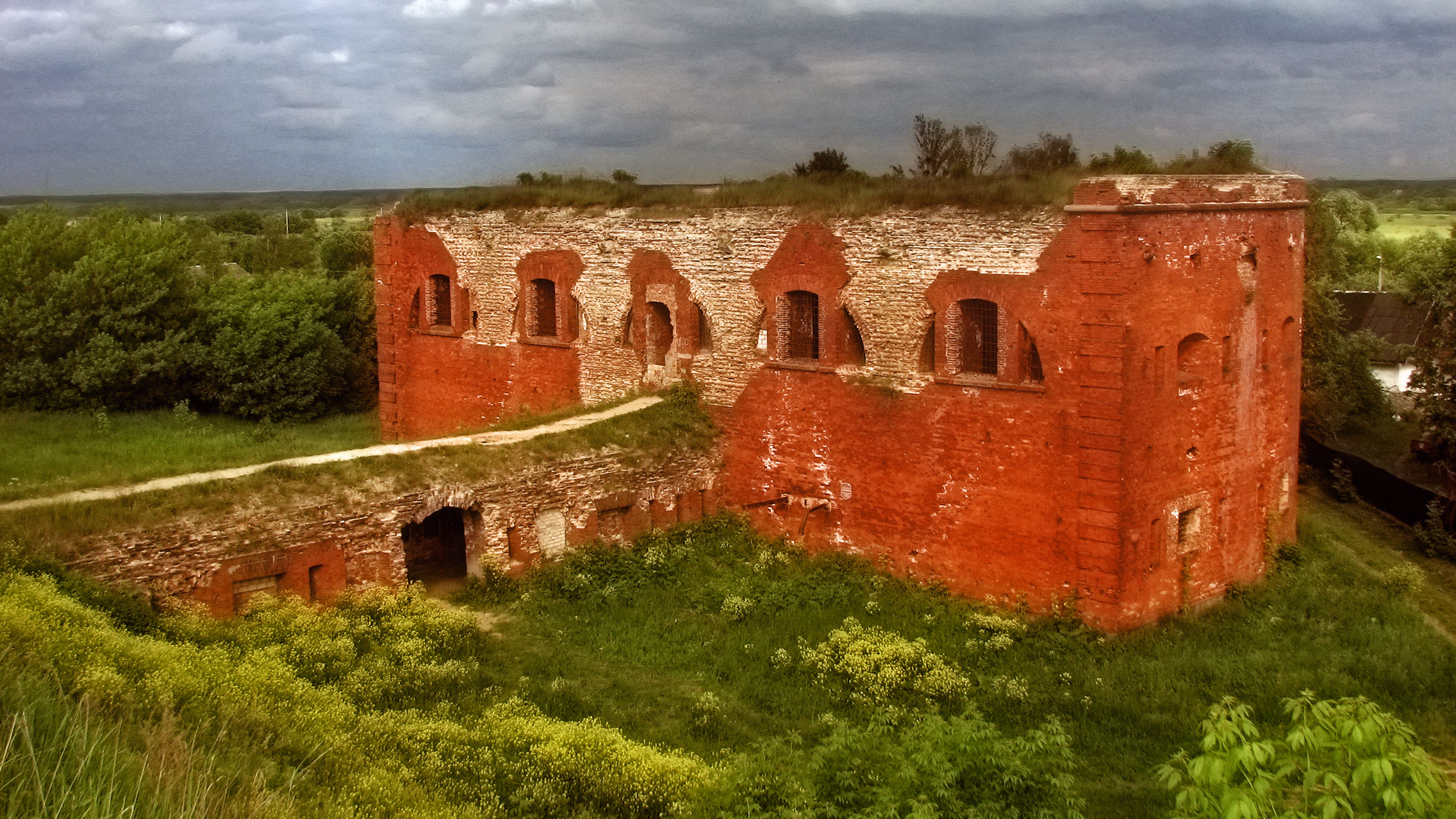 Беларуская (тарашкевіца): Крэпасць. г. Бабруйск This is a photo of Belarusian heritage monument. Reference number: 512Г000059 ( WLM)